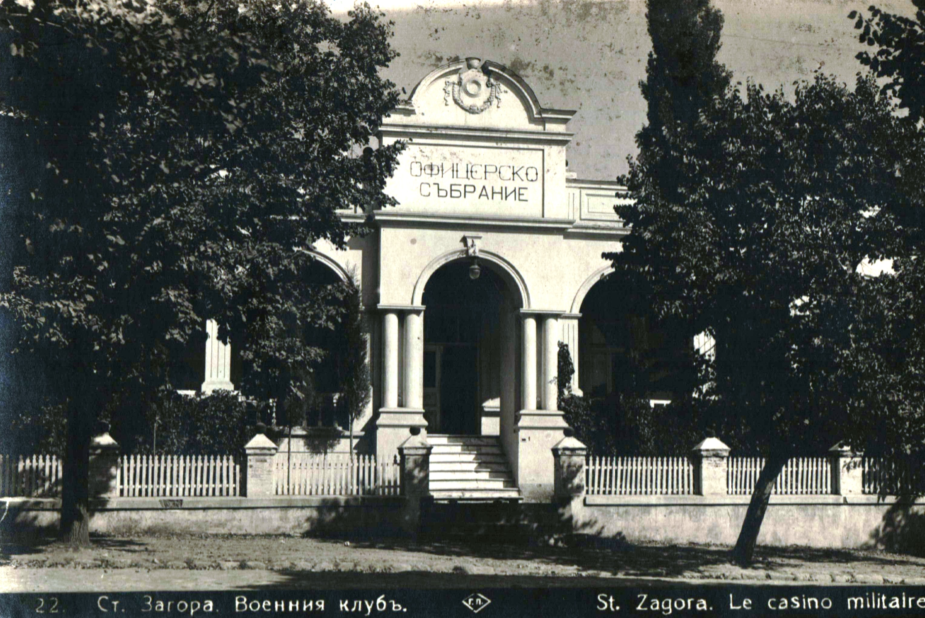 Military club, Stara Zagora, Bulgaria